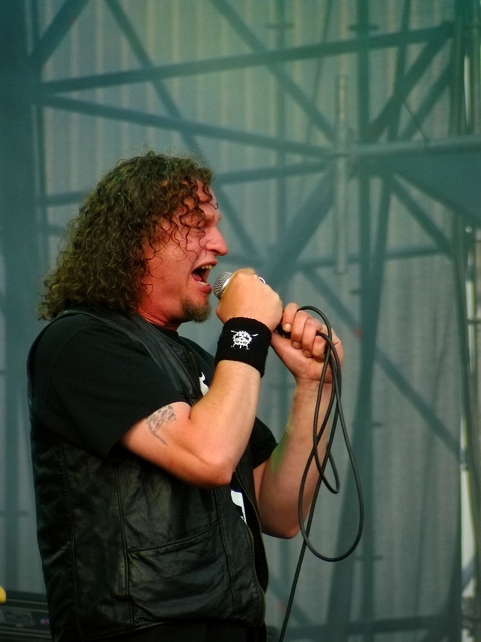 Denis Bélanger in Vizovice